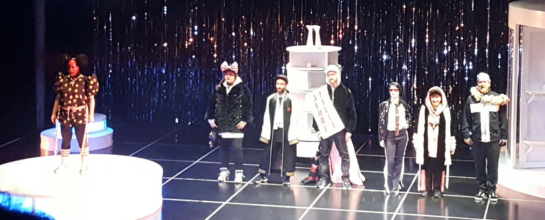 Stéphane Crête, Maude Guérin, Emmanuelle Lussier-Martinez, Marc Beaupré, Monique Miller, Joanie Martel & Gilles Renaud photographed in Montréal, Quebec, Canada at Espace Go.